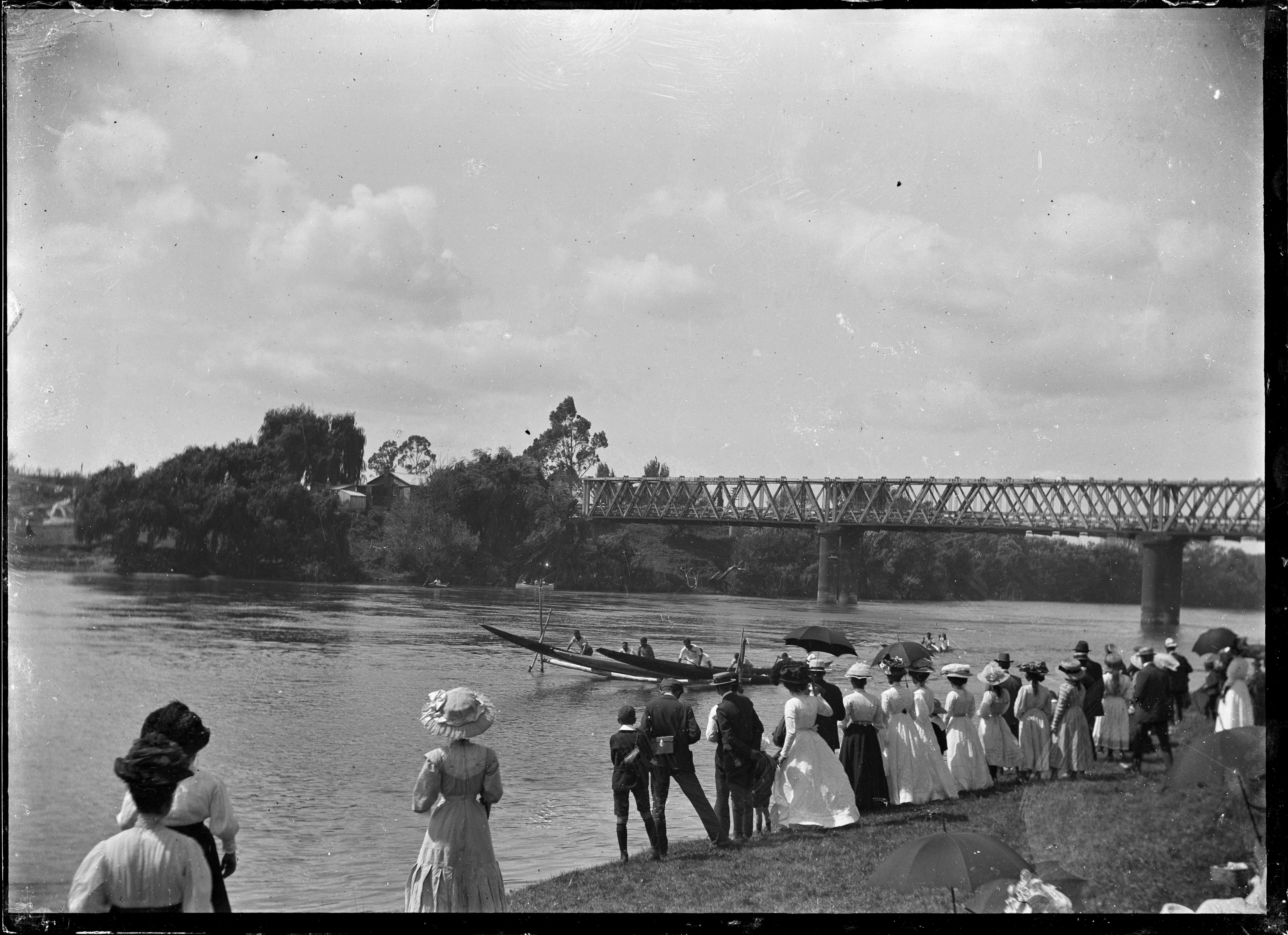 View of Maori waka (canoes) in a hurdle race on the Waikato River at the Ngaruawahia Regatta. A group of people line the river banks to watch. A bridge crosses the river in the right background. Taken by Albert Percy Godber circa 1910.